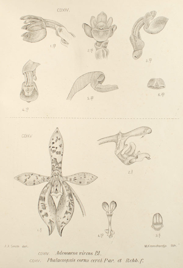 Phalaenopsis cornu-cervi